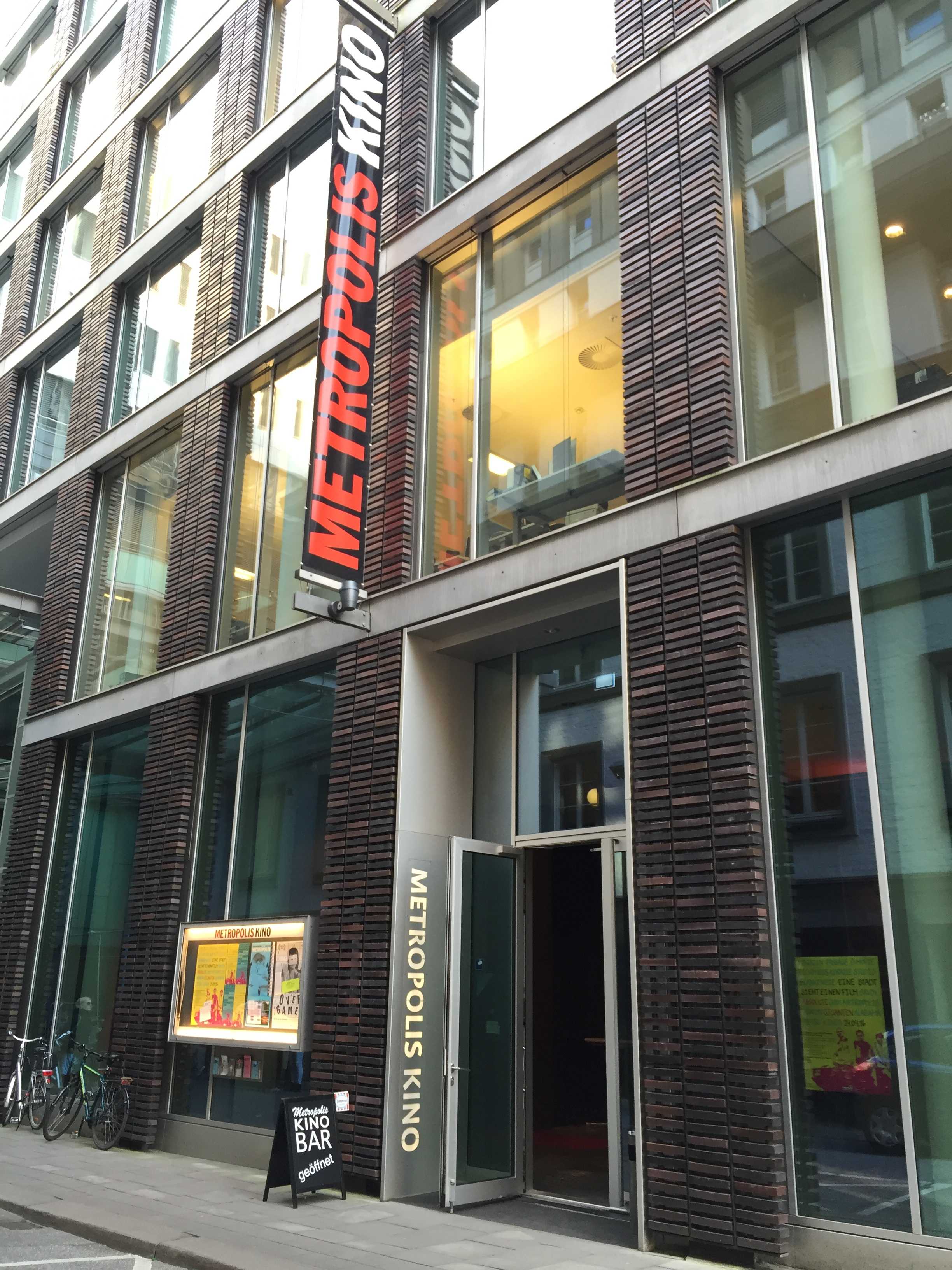 Outside of Metropolis Kino film theatre in Hamburg Germany